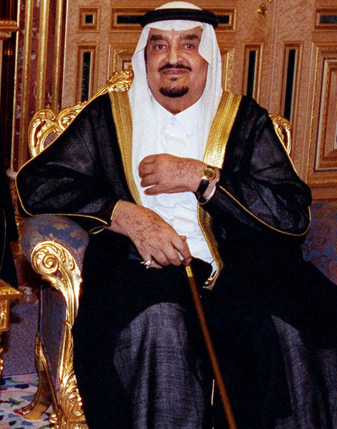 Cropped version of photograph taken of King Fahd bin Abd al-Aziz Al Saud at Al-Yamamah Palace, Riyadh, Saudi Arabia, on Oct. 13, 1998.